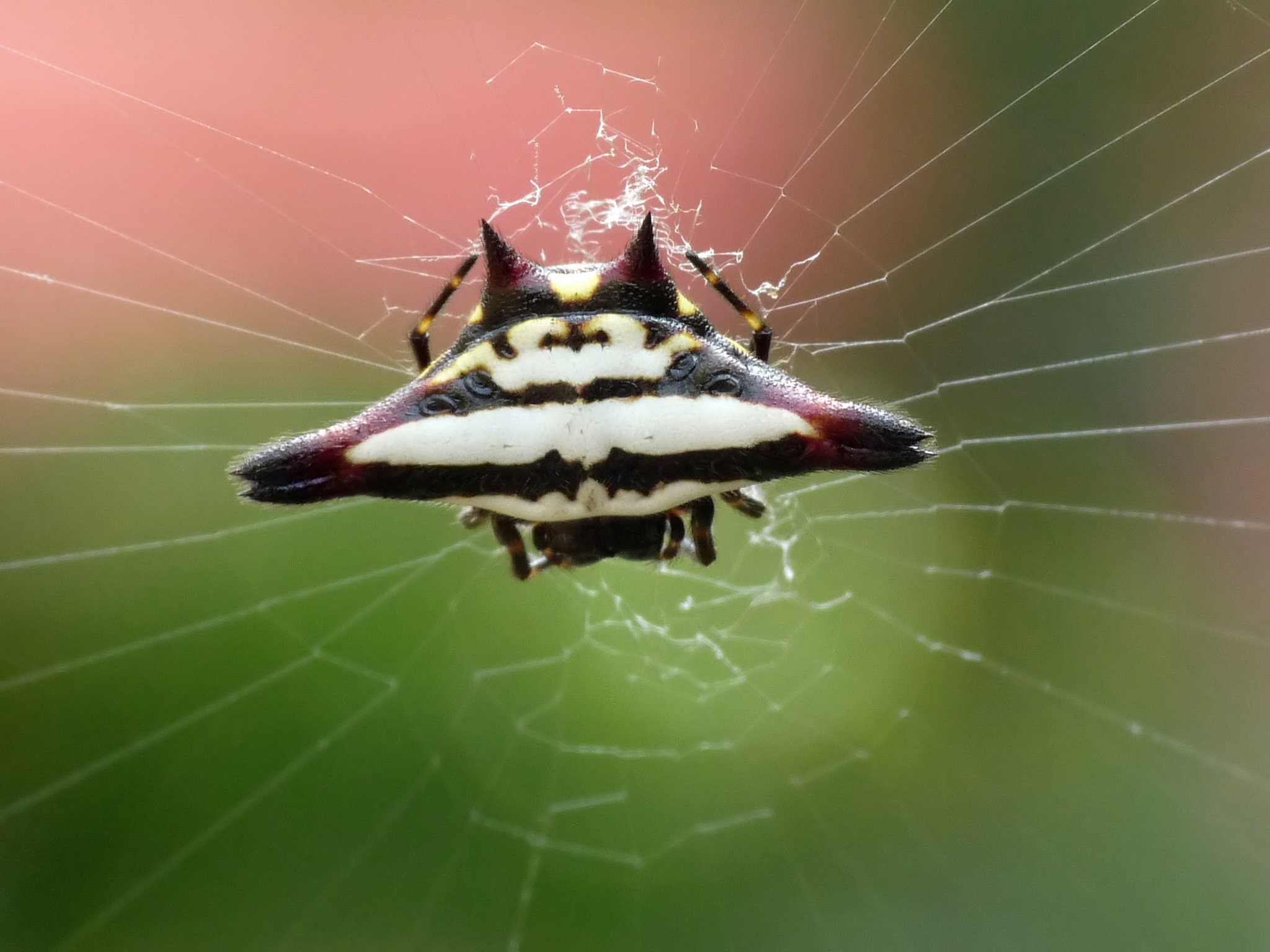 Spiny orb-weavers is a common name for Gasteracantha, a genus of spiders. They are also commonly called Spiny-backed orb-weavers, due to the prominent spines on their abdomen. These spiders can reach sizes of up to 30mm in diameter (measured from spike to spike). Although their shell is shaped like a crab shell with spikes, it is not to be confused with a crab spider. This is Gasteracantha geminata. Taken at Kadavoor, Kerala, India.